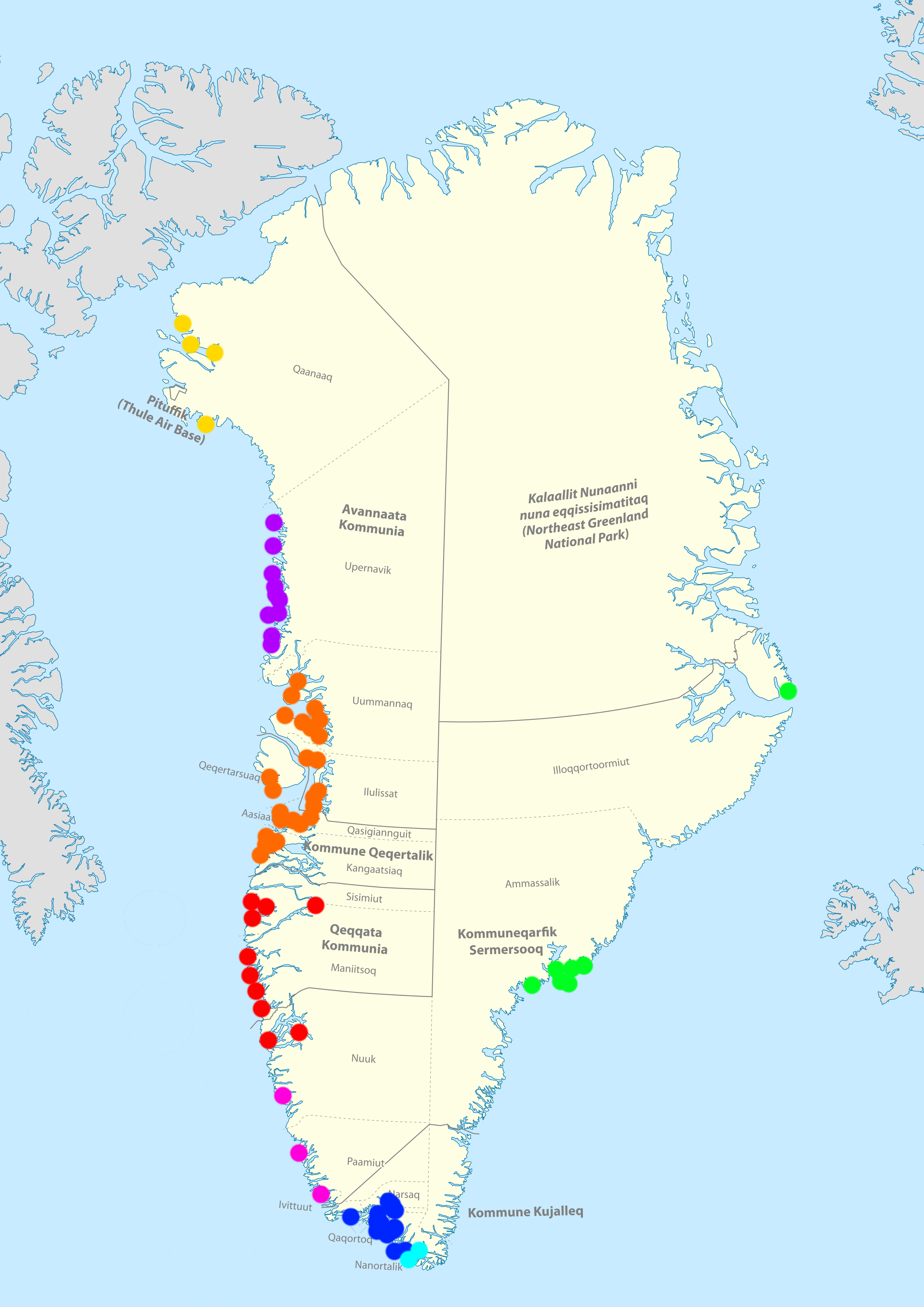 Map showing all villages in Greenland sorted by spoken dialect. Colours: yellow: Inuktun purple: Upernavik dialect (North west Greenlandic/Kitaamiusut) orange: Kangaatsiaq-Uummannaq dialect (North west Greenlandic/Kitaamiusut) red: Central west Greenlandic/Kalaallisut (Kitaamiusut) pink: Paamiut dialect (Kujataamiusut/Kitaamiusut) blue: Nanortalik-Narsaq-Qaqortoq dialect (Kujataamiusut/Kitaamiusut) turquoise: Kap Farvel dialect (Kujataamiusut/Kitaamiusut) green: Tunumiisut